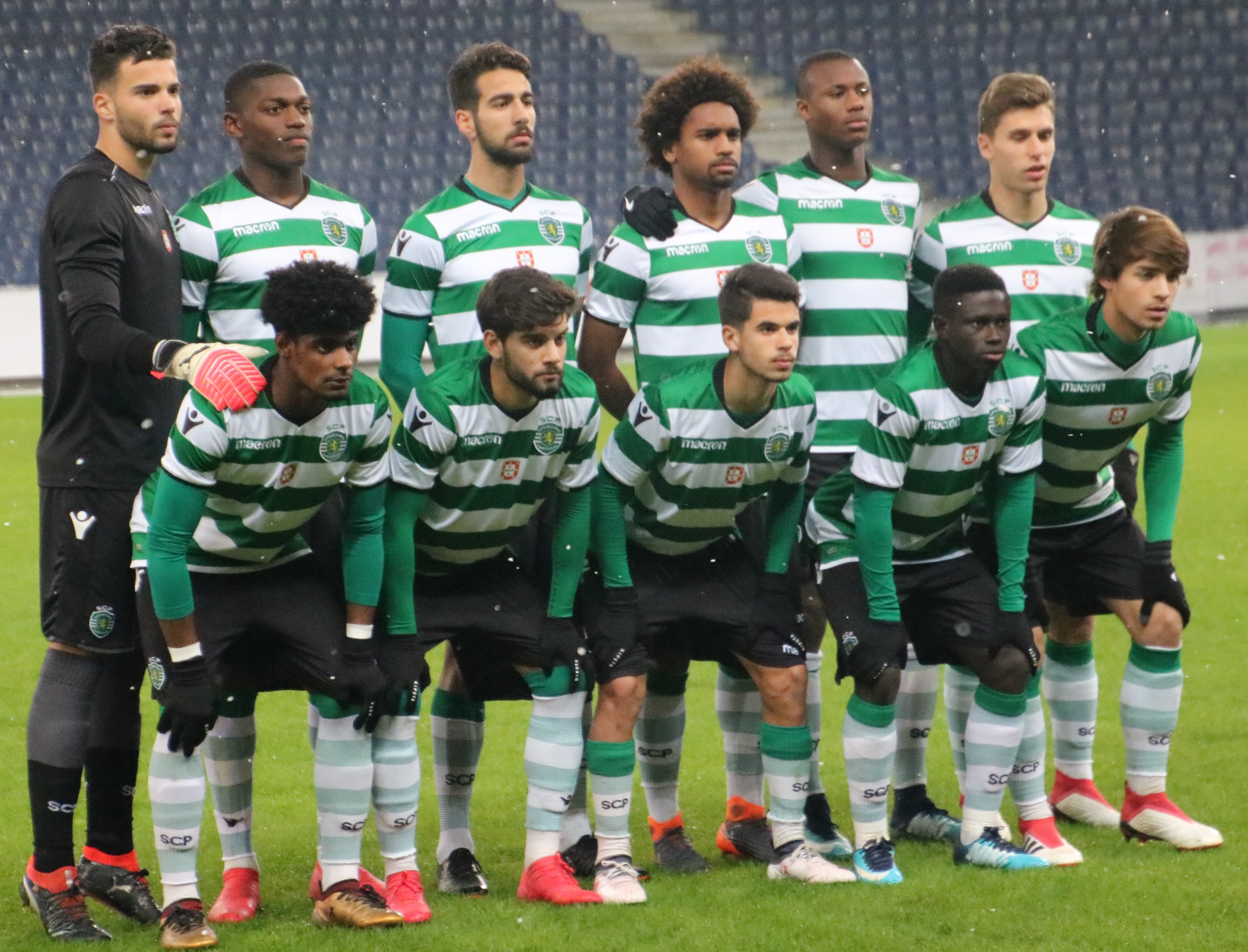 UEFA Youth League 2017/18 Play off match